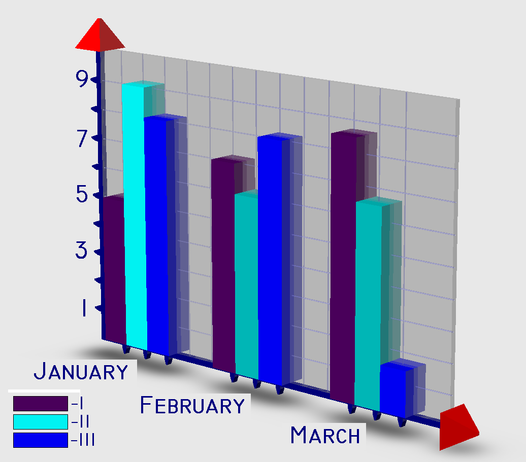 The schematic image a 3D histogramm.